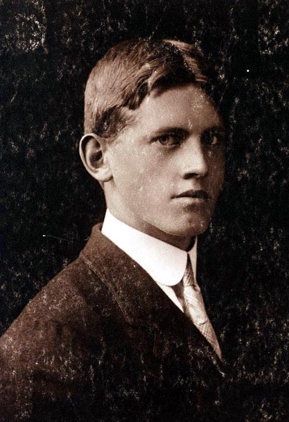 James Paul Chapin as in 1904